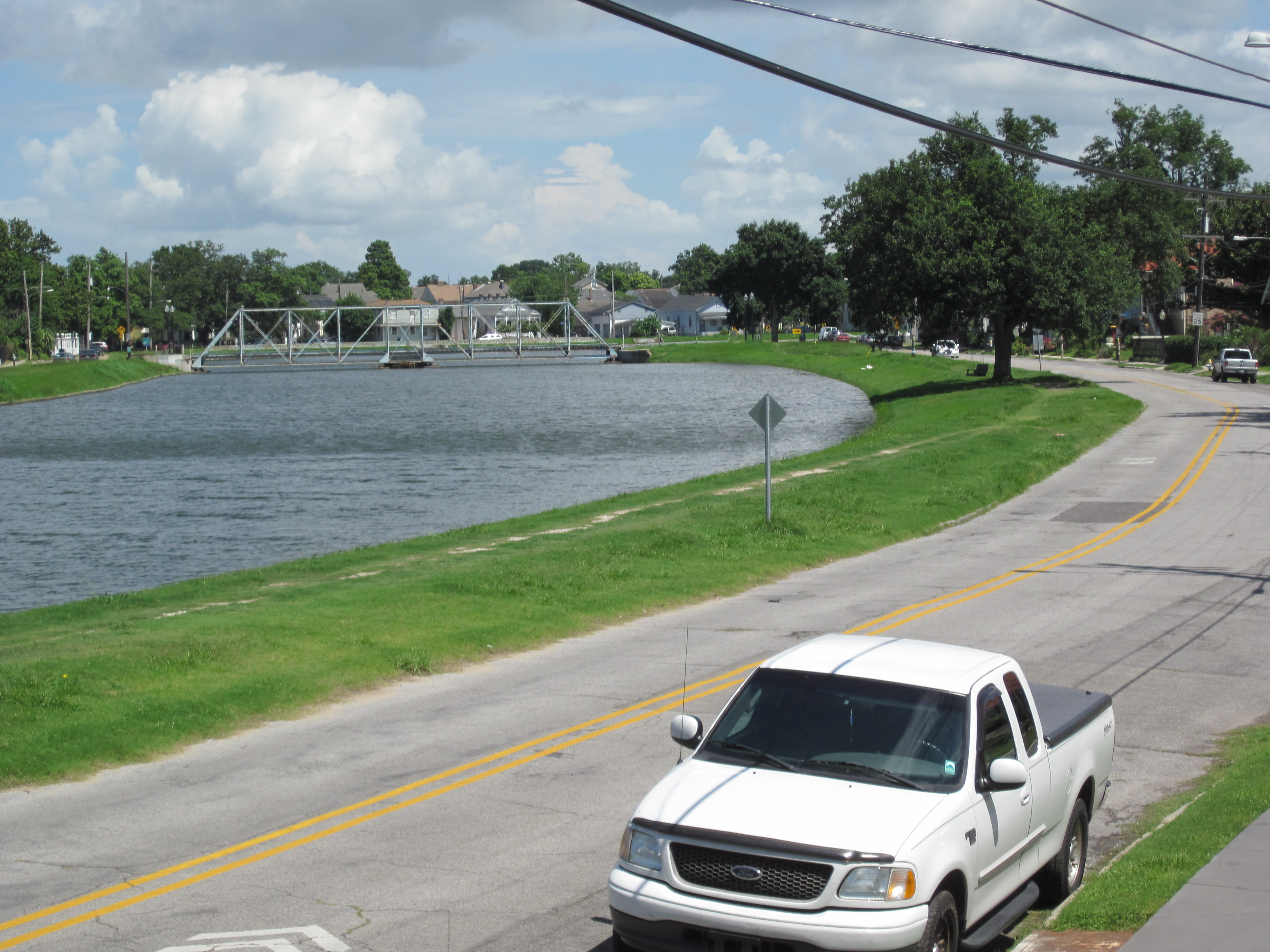 Bayou St. John, New Orleans. Old swing bridge, now a stationary pedestrian only bridge.